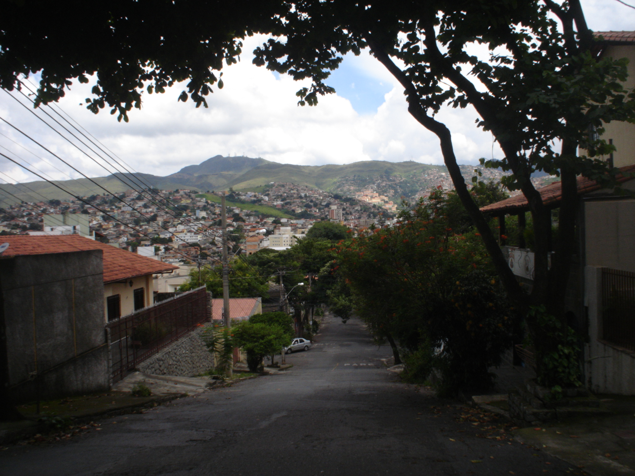 A street in Santa Tereza, Belo Horizonte, Brazil.